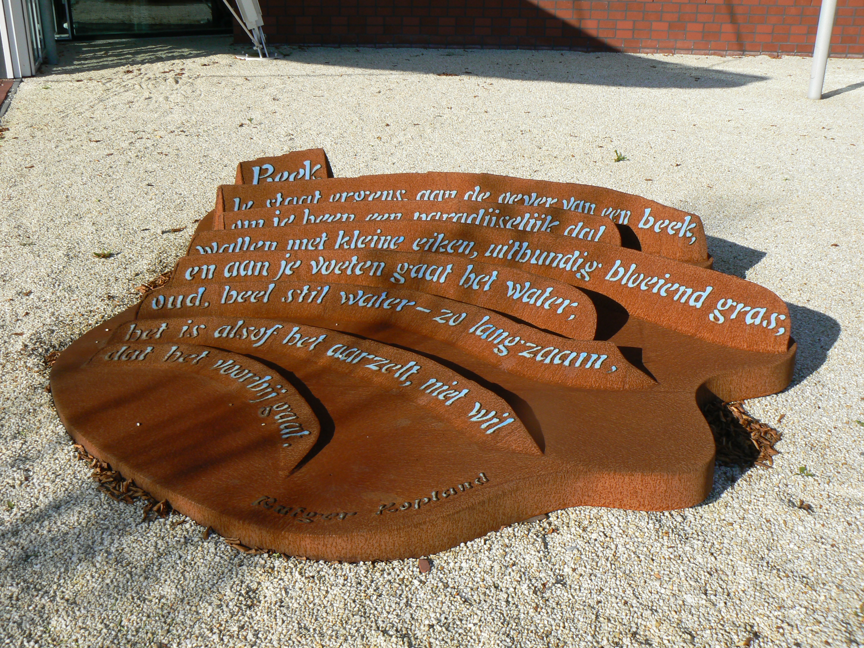 Sculptured poetry from Rutger Kopland ("Beek") Waterschap Hunze en Aa's in Veendam/The Netherlands